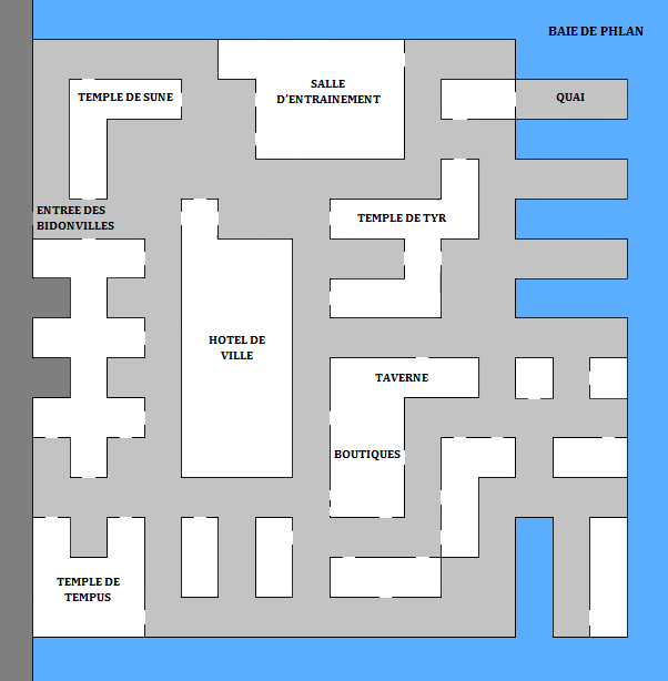 Approximative layout of the civilized quarter of the fictional city of Phlan in the video game Pool of Radiance (1988).